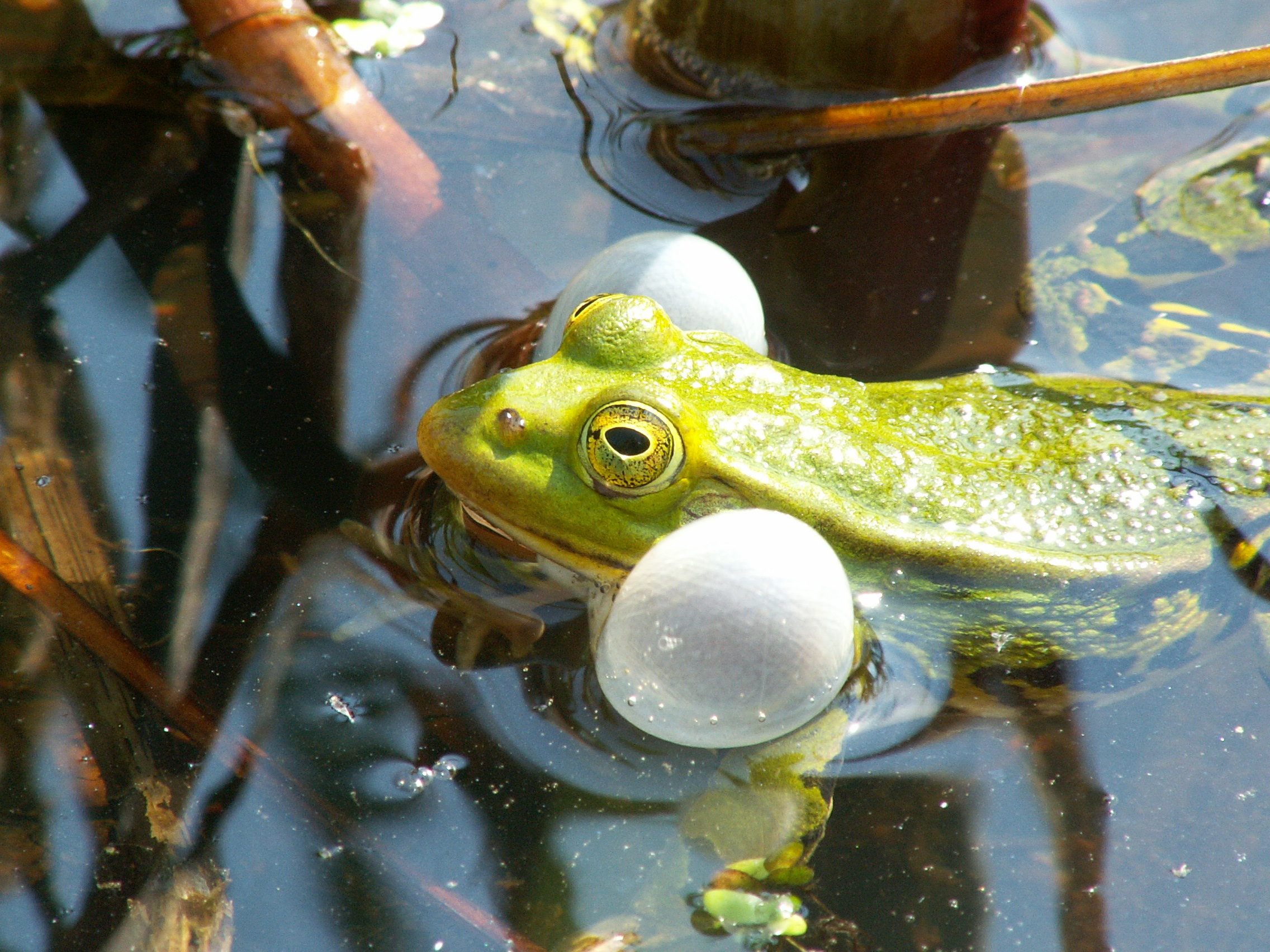 Male Pool frog (Rana lessonae aka Pelophylax lessonae) croacking. The bellows are pure white.